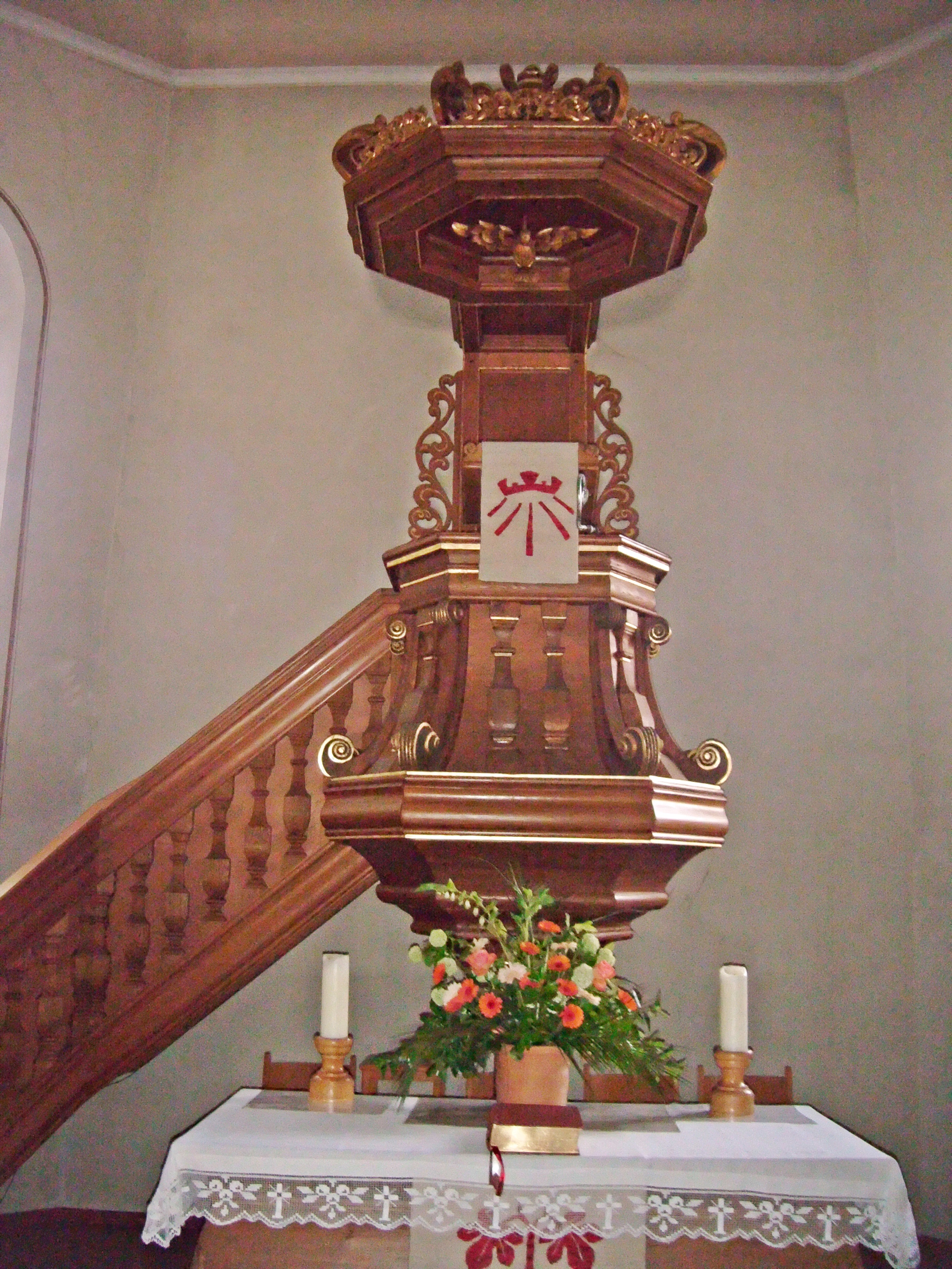 Heuchelheim bei Frankenthal, Prot. Kirche, Kanzel